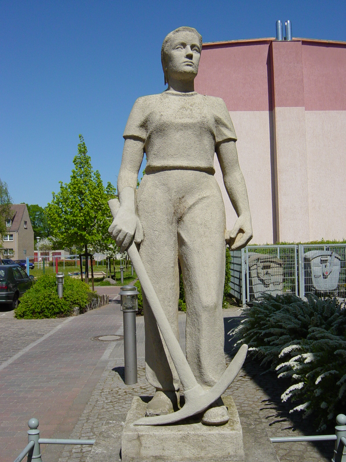 The "Trümmerfrau" memorial in Strasburg (Uckermark), made by Herbert Köhnke.